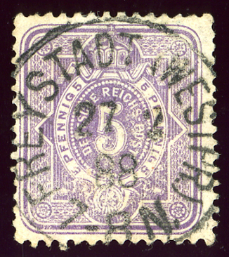 Stamp of Germany, 5 Pfennig, issue 1880, cancelled FREYSTADT in Westpreussen (Kisielice, Poland).